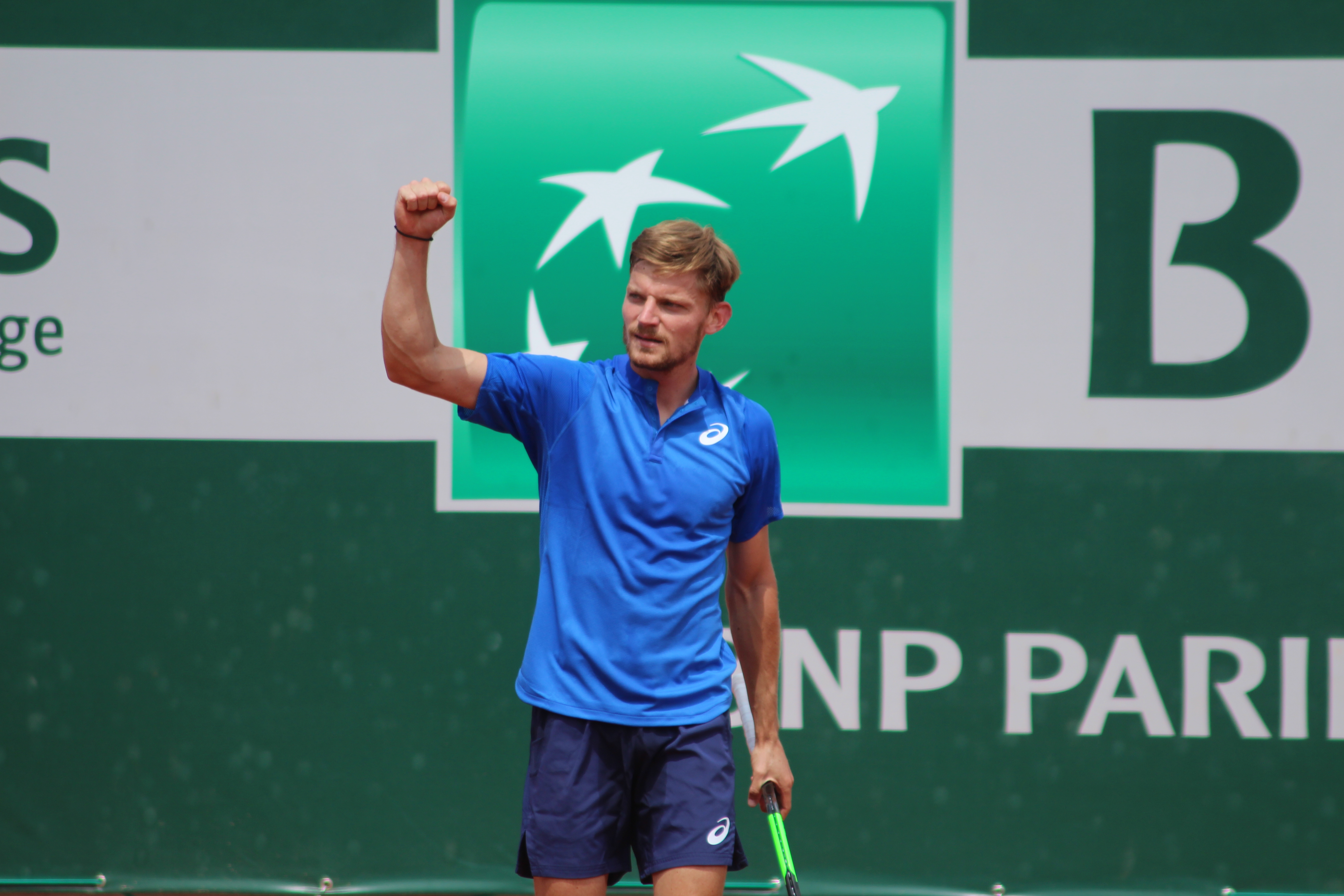 David Goffin wins match at the 2019 French Open.